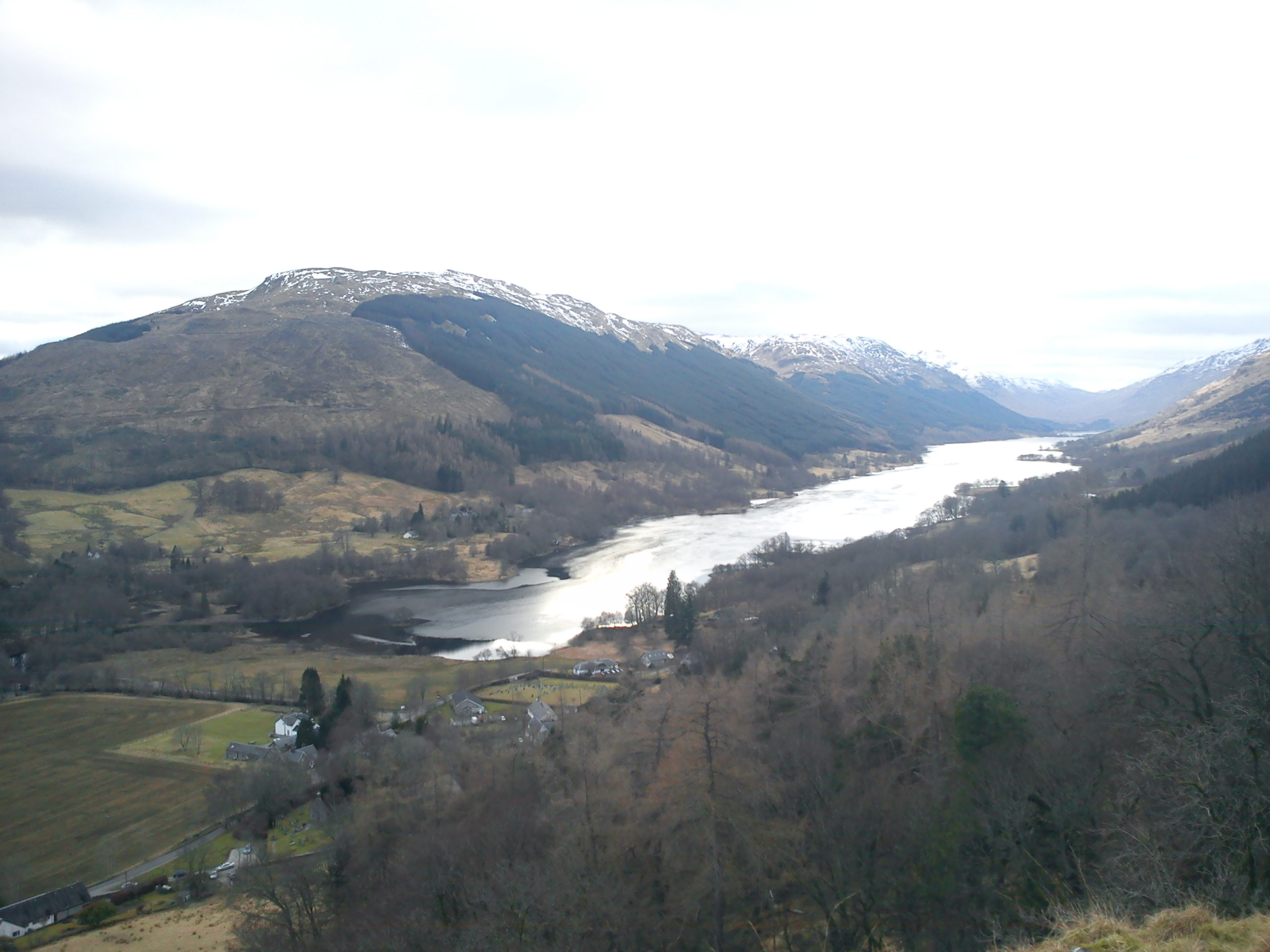 Picture taken by me of the view from Creag an Tuirc